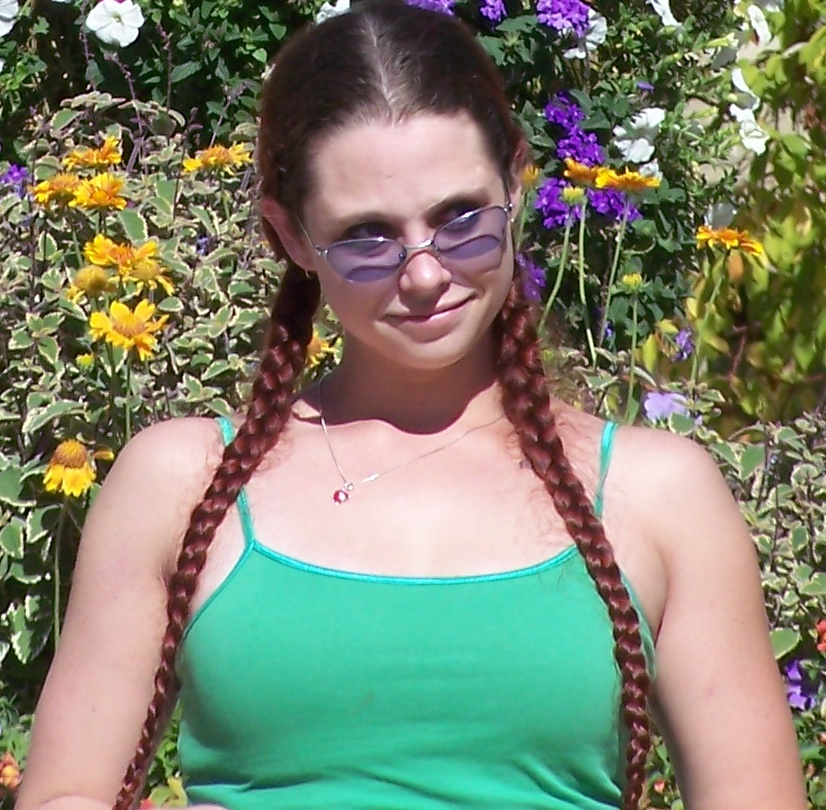 A women with braided pigtails. This photo was taken at a pro-Marijuana rally outside City Hall in Calgary, Alberta, Canada.